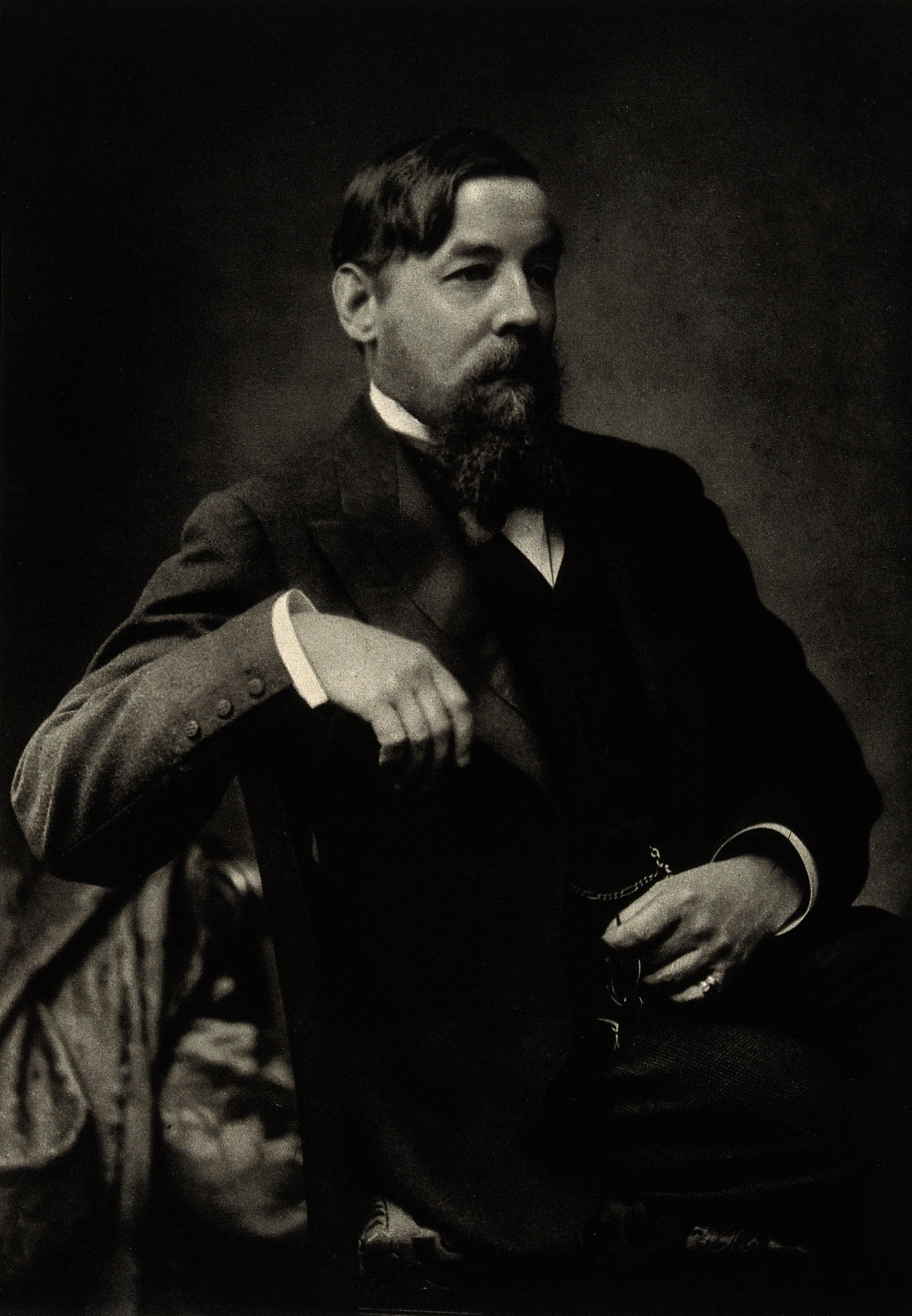 James F. Goodhart. Photogravure after Elliott & Fry. Iconographic Collections Keywords: portrait prints; James Frederic Goodhart